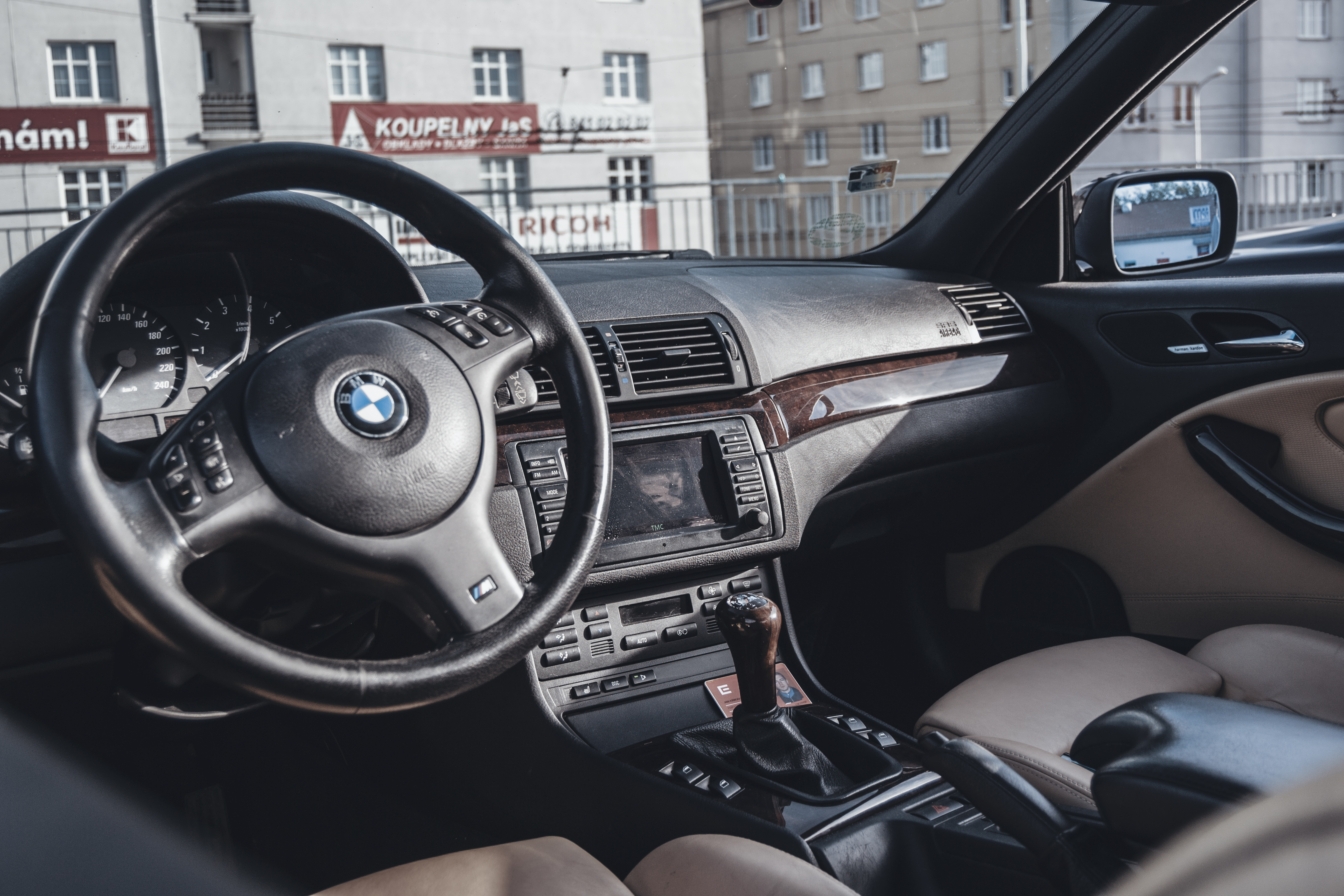 BMW E46 330i Coupe interior